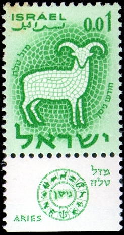 Zodiac I stamp - 0.01 Israeli lira - Sign of Aries, Month of Nissan